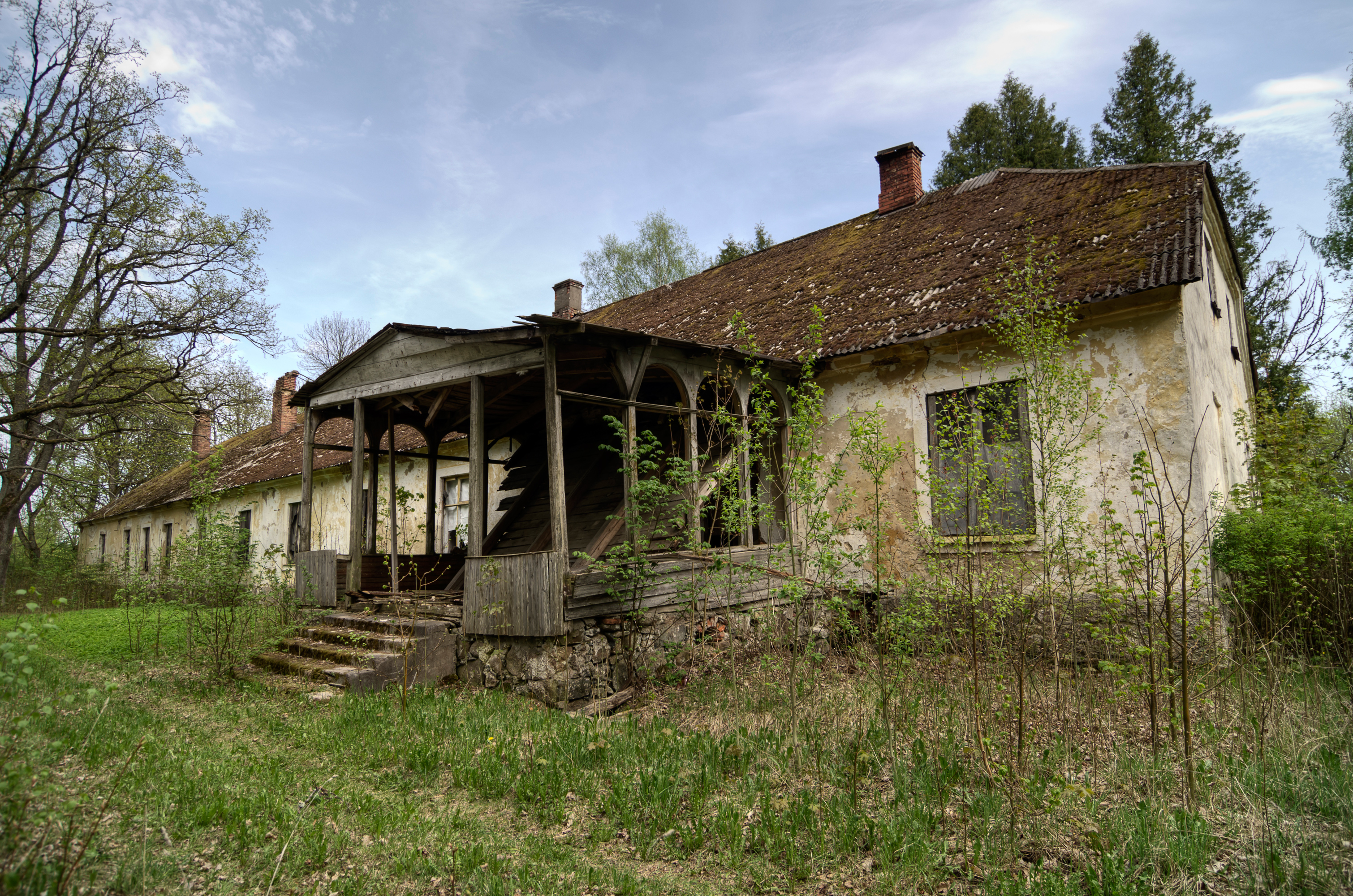 Back side of Tapiku Manor House